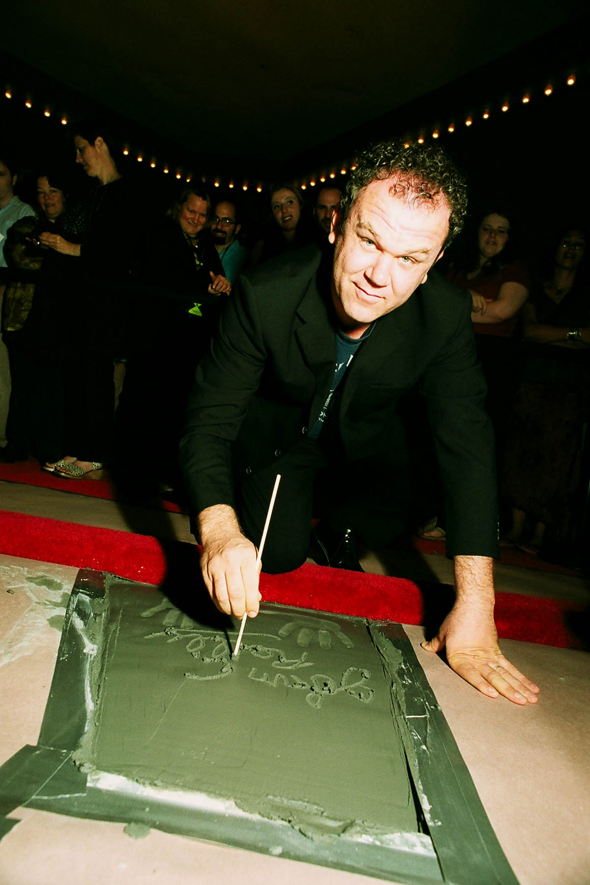 John C. Reilly in 2003